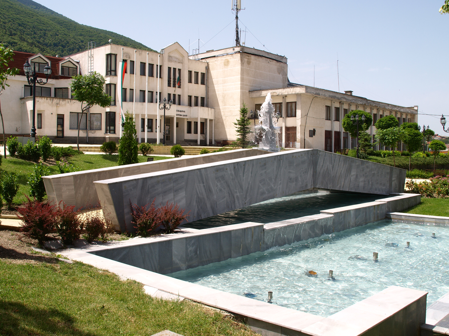 Sapareva Banya Townhall